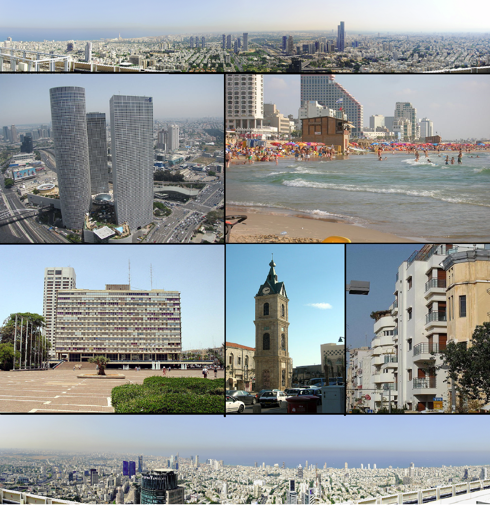 Panorama of Tel Aviv, Israel, taken from the Azriel Center Circular Tower.